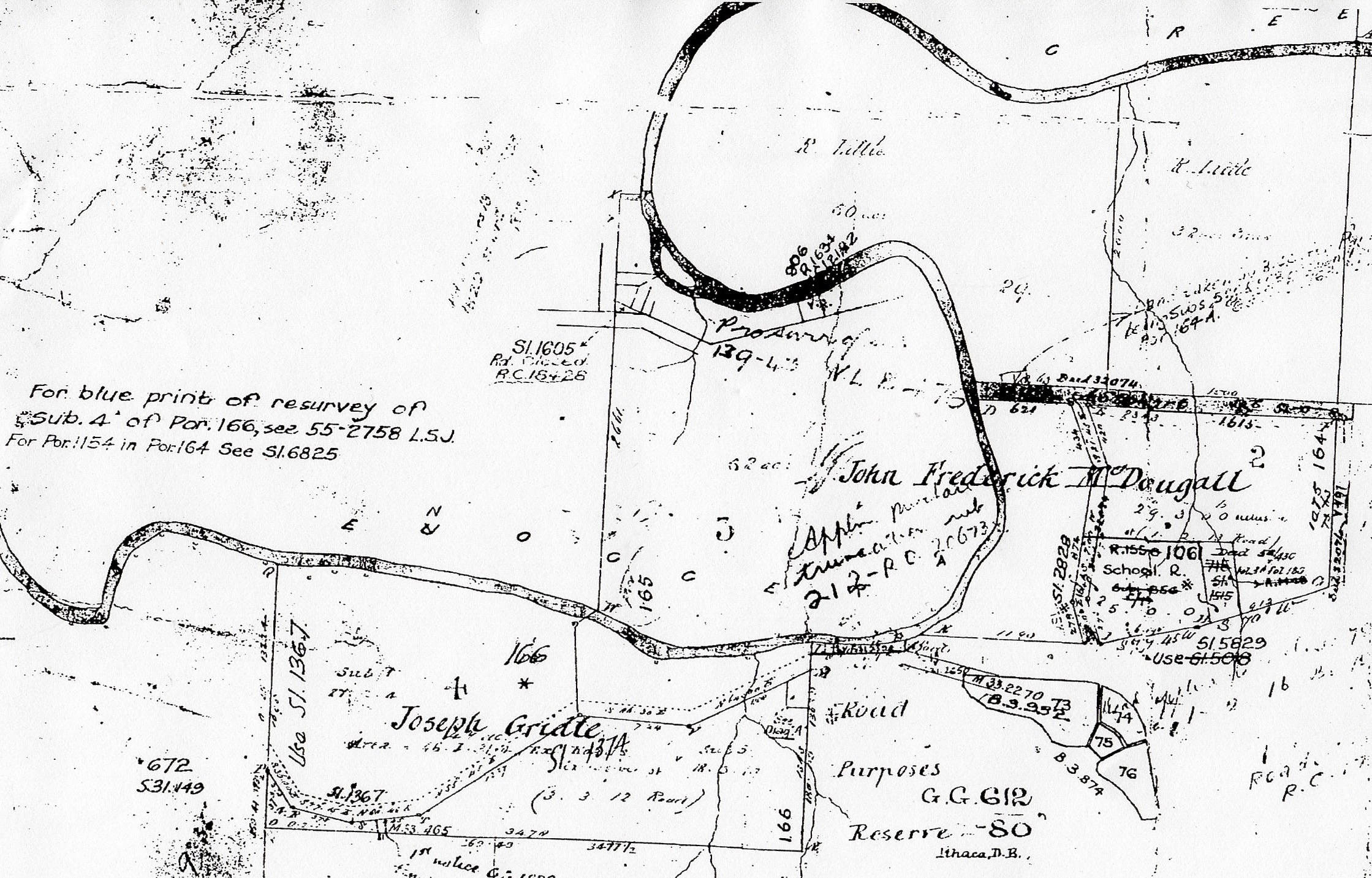 Section of James Warner's 1858 map showing the portion 165, area 52 acres purchased by John Fredrick McDougall.